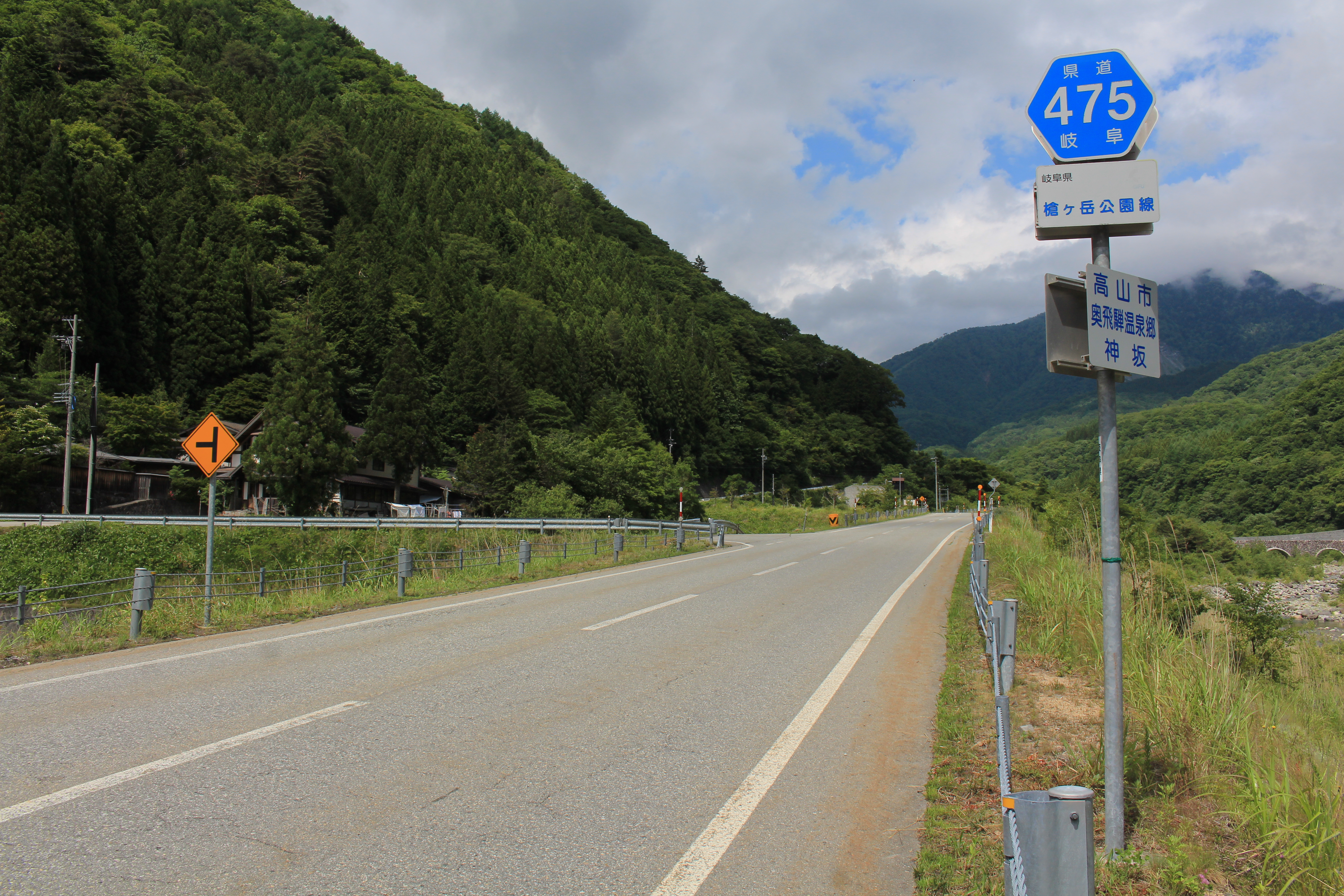 Gifu Prefectural Road Route 475 in Takayama, Gifu prefecture, Japan.